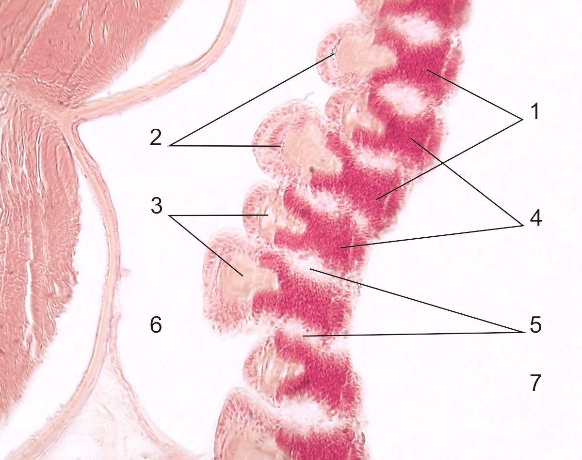 Lancelet's gill slits